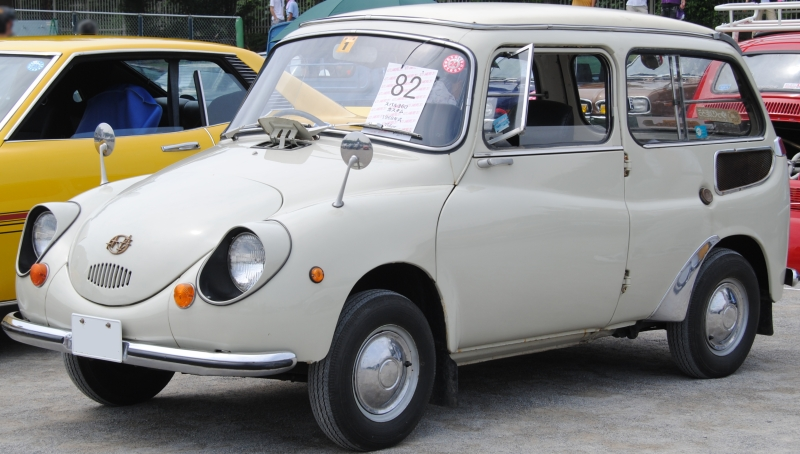 Subaru 360 Custom